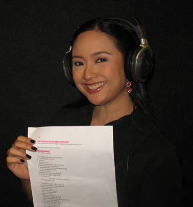 Christine Babao - Tulaan sa Tren 2 (National Book Development Board)